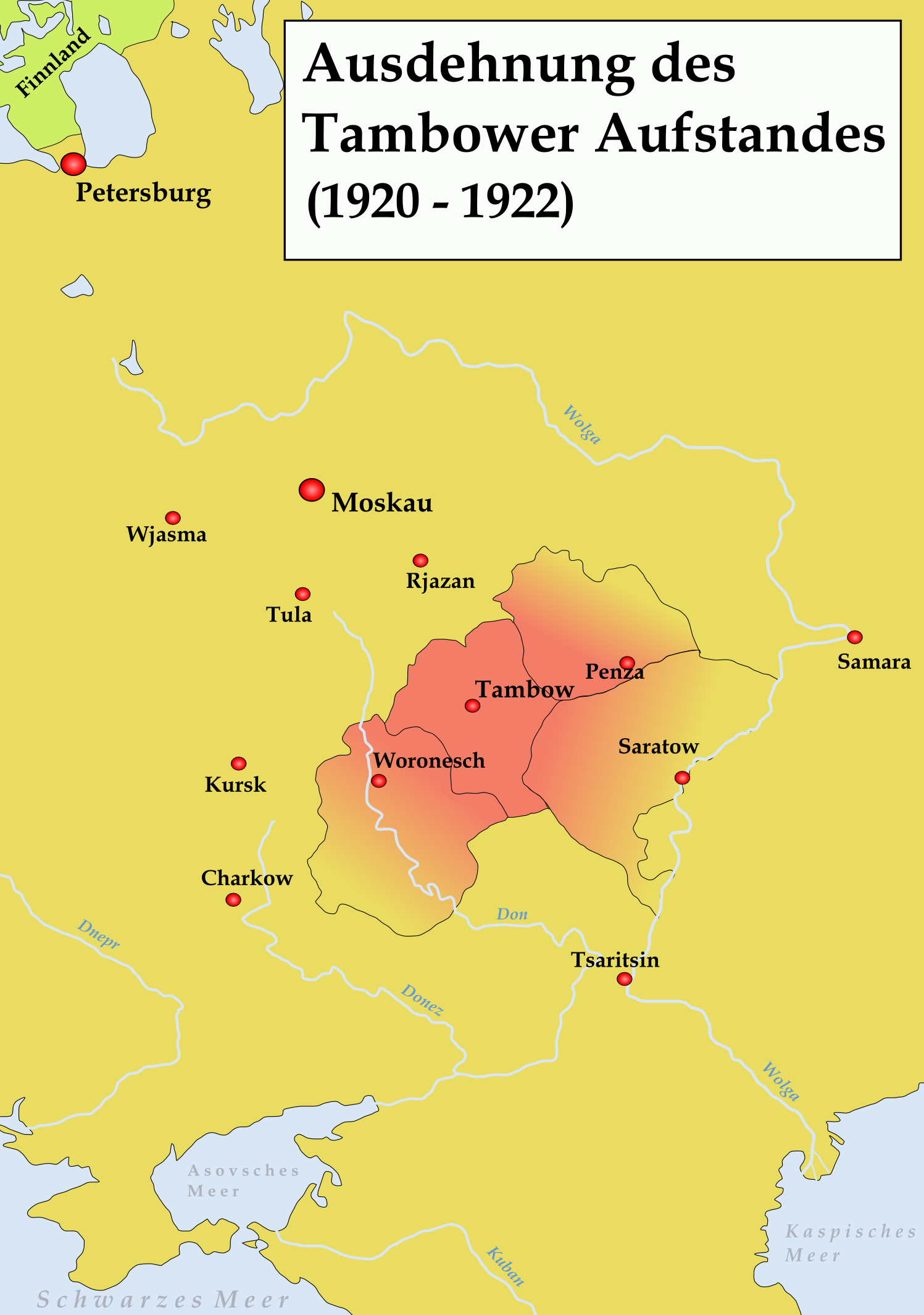 Map showing the main area of the Tambov Uprising in Russia 1920-1922 (labels in German and partially wrong)